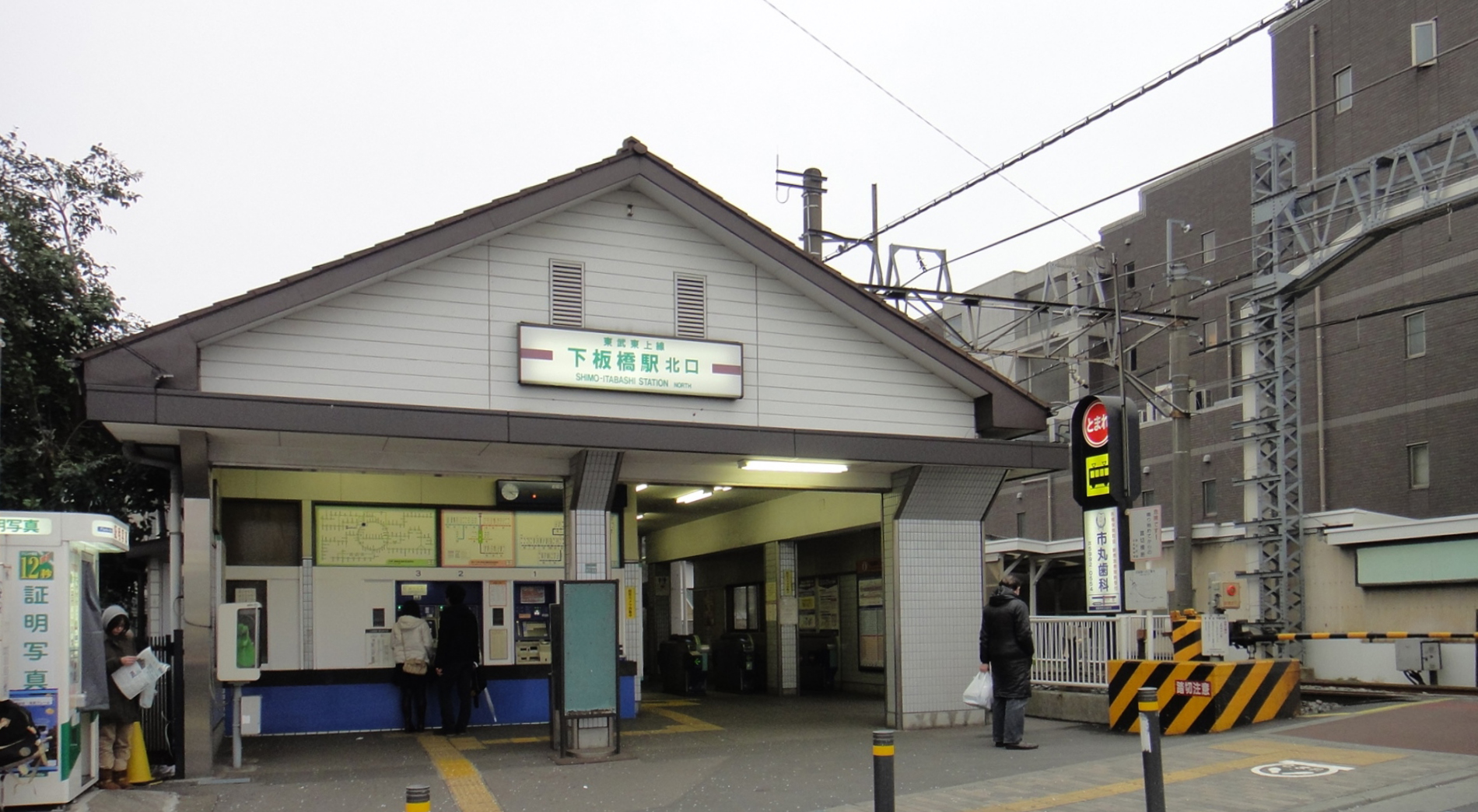 Entrance of Shimo-Itabashi Station on the Tobu Tojo Line in Tokyo, Japan